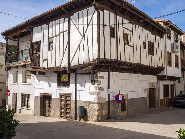 Arquitectura popular en Candeleda.